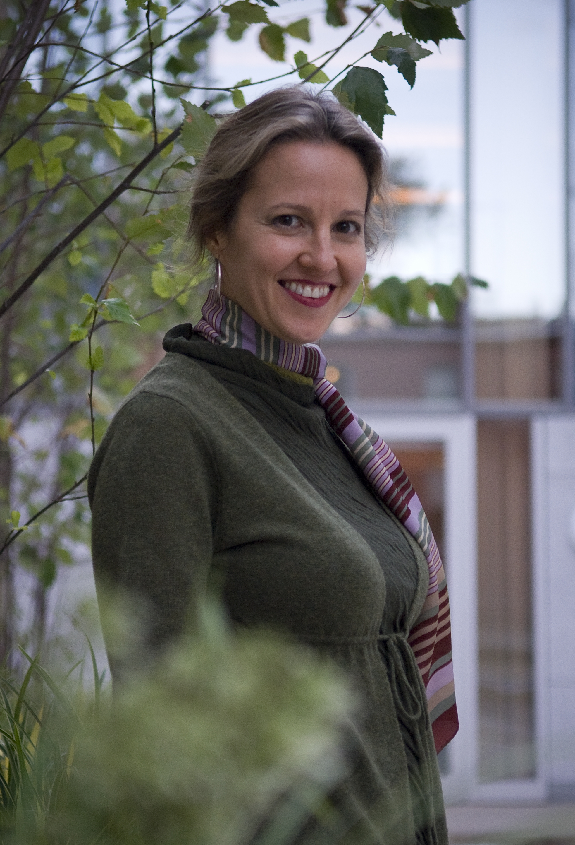 Photograph of New York City artist Chrissy Conant, Taken at the 2008 Molecules that Matter lecture, October 21, 2008, Chemical Heritage Foundation, Philadelphia, PA, USA.